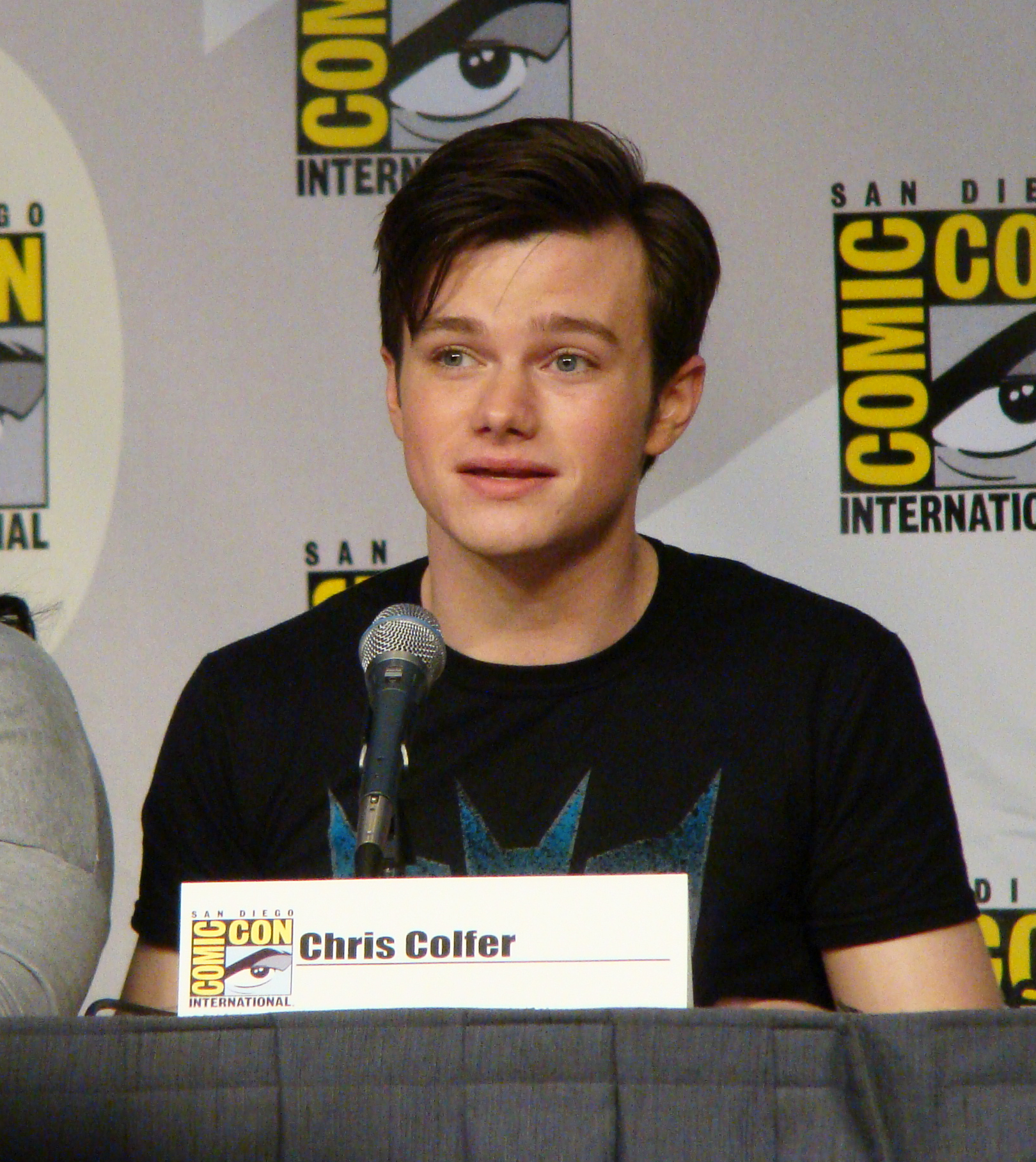 Amber Riley & Chris Colfer